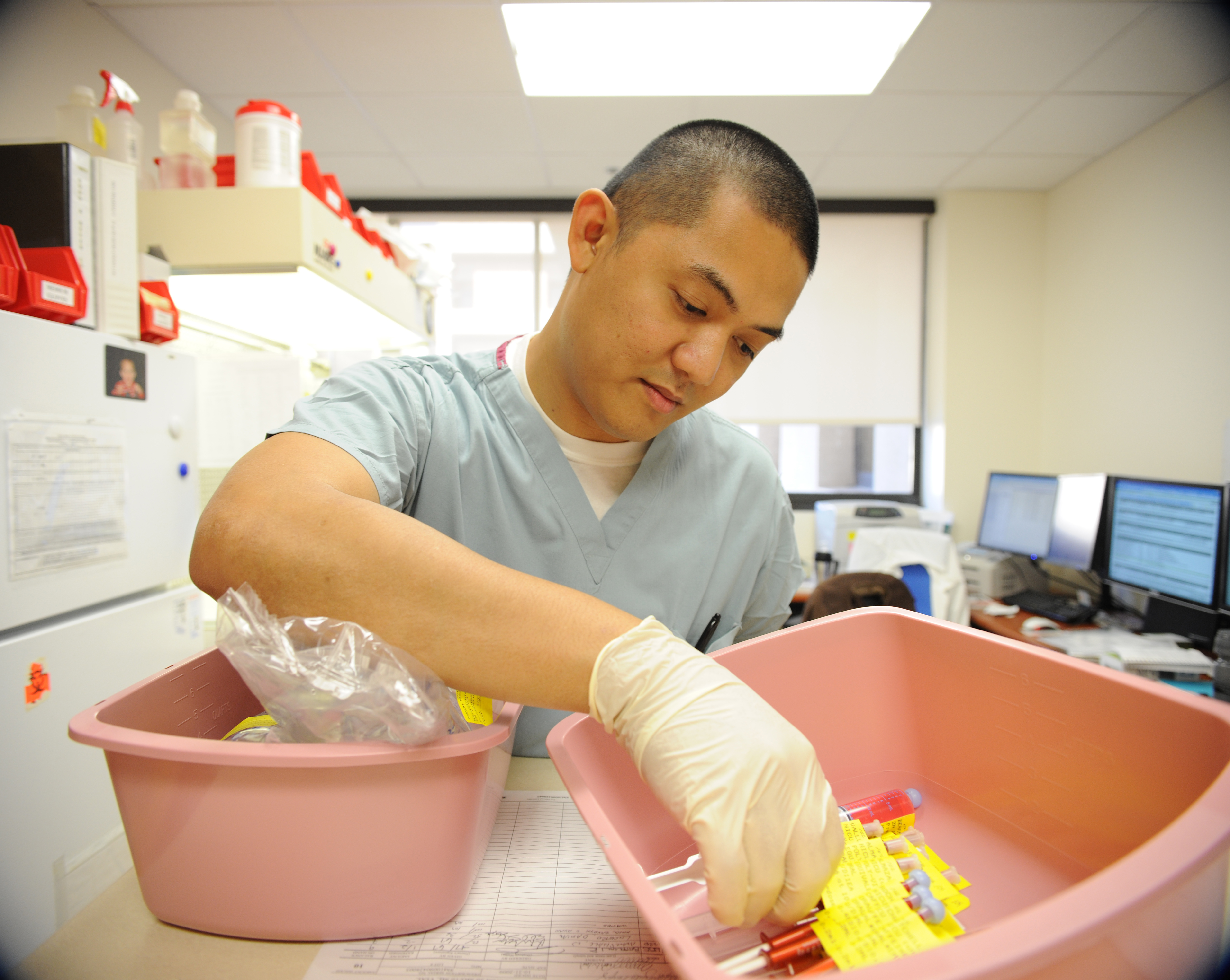 SAN DIEGO (Jan. 12, 2009) Hospital Corpsman 1st Class Karlojo D. Atienza, leading petty officer of the pharmacy department, checks the expiration dates and ensures that the correct medications are ready to be administered to patients at Naval Medical Center San Diego. Atienza was recently selected as the Navy's Pharmacy Technician of the Year. (U.S. Navy photo by Mass Communications Specialist 3rd Class Jake Berenguer/Released)